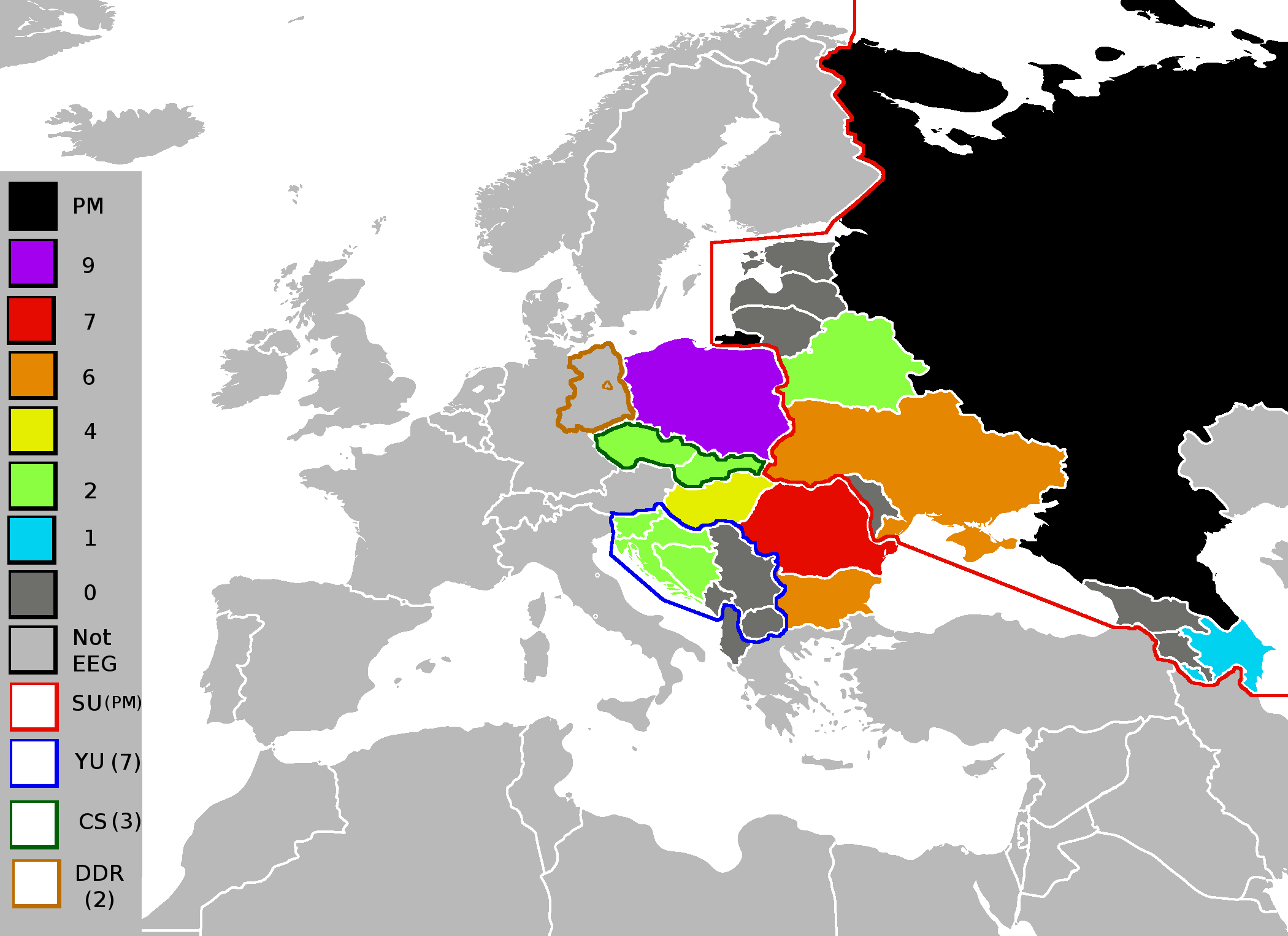 A map of the Eastern European Group, an unofficial group of the United Nations, with the number of years each member spent on the United Nations Security Council as of 2012. The Asian part of the Soviet Union/Russia is not shown.